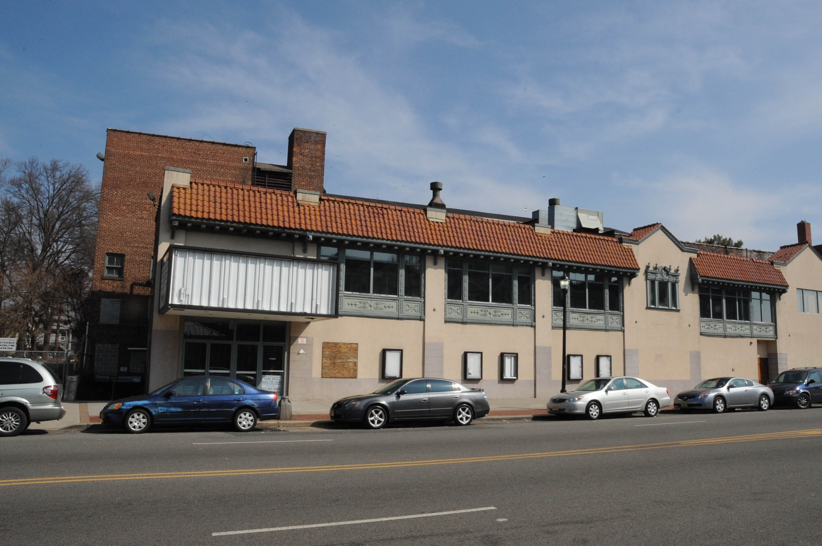 HOLLYWOOD MOVIE THEATER (NOW CLOSED) AND STORES AT 634 TO 654 CENTRAL AVENUE BUILT CIRCA 1925 IN SPANISH BAROQUE REVIVAL STYLE